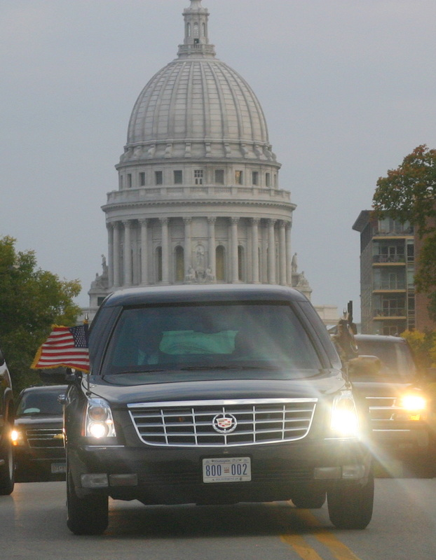 Presidential State Car